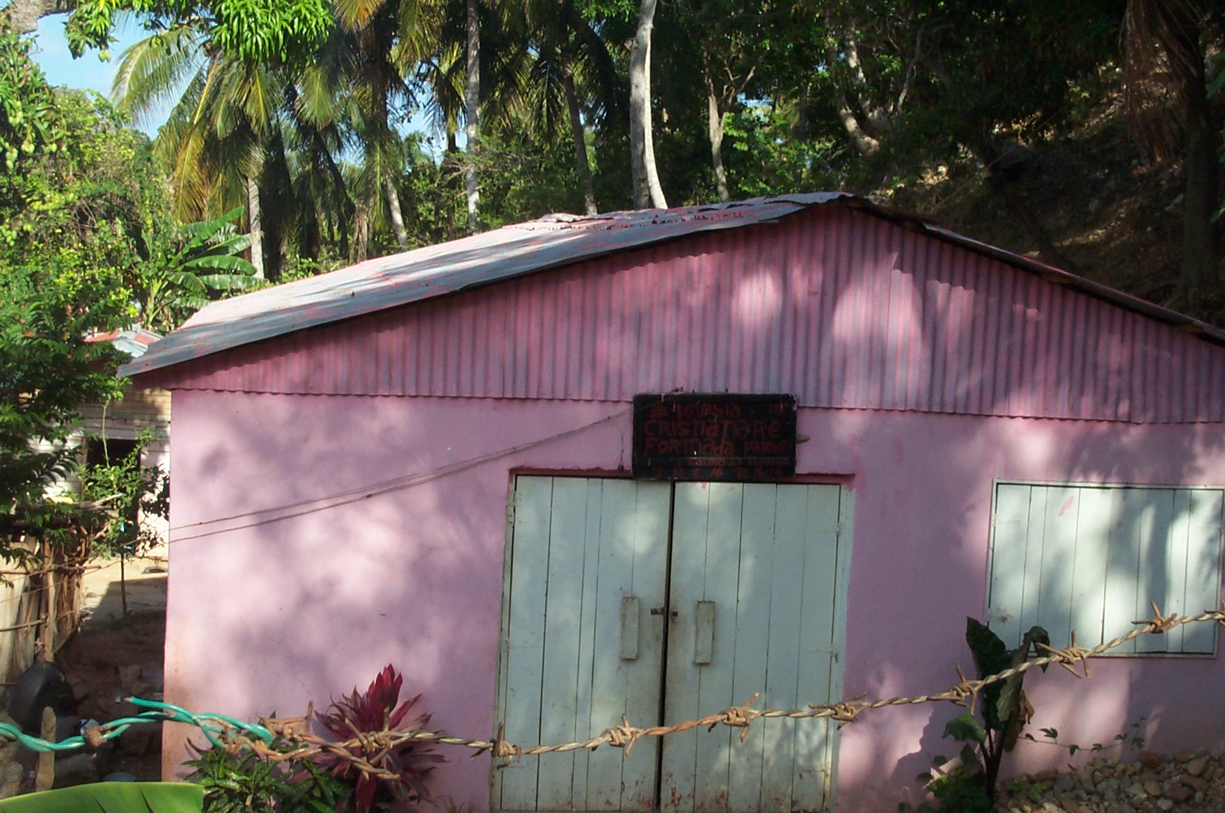 The Paraíso Reformed Christian Church, in the province of Barahona, in the Dominican Republic. I understand that this is a church located in the barrios for refugees and displaced persons from Haiti.